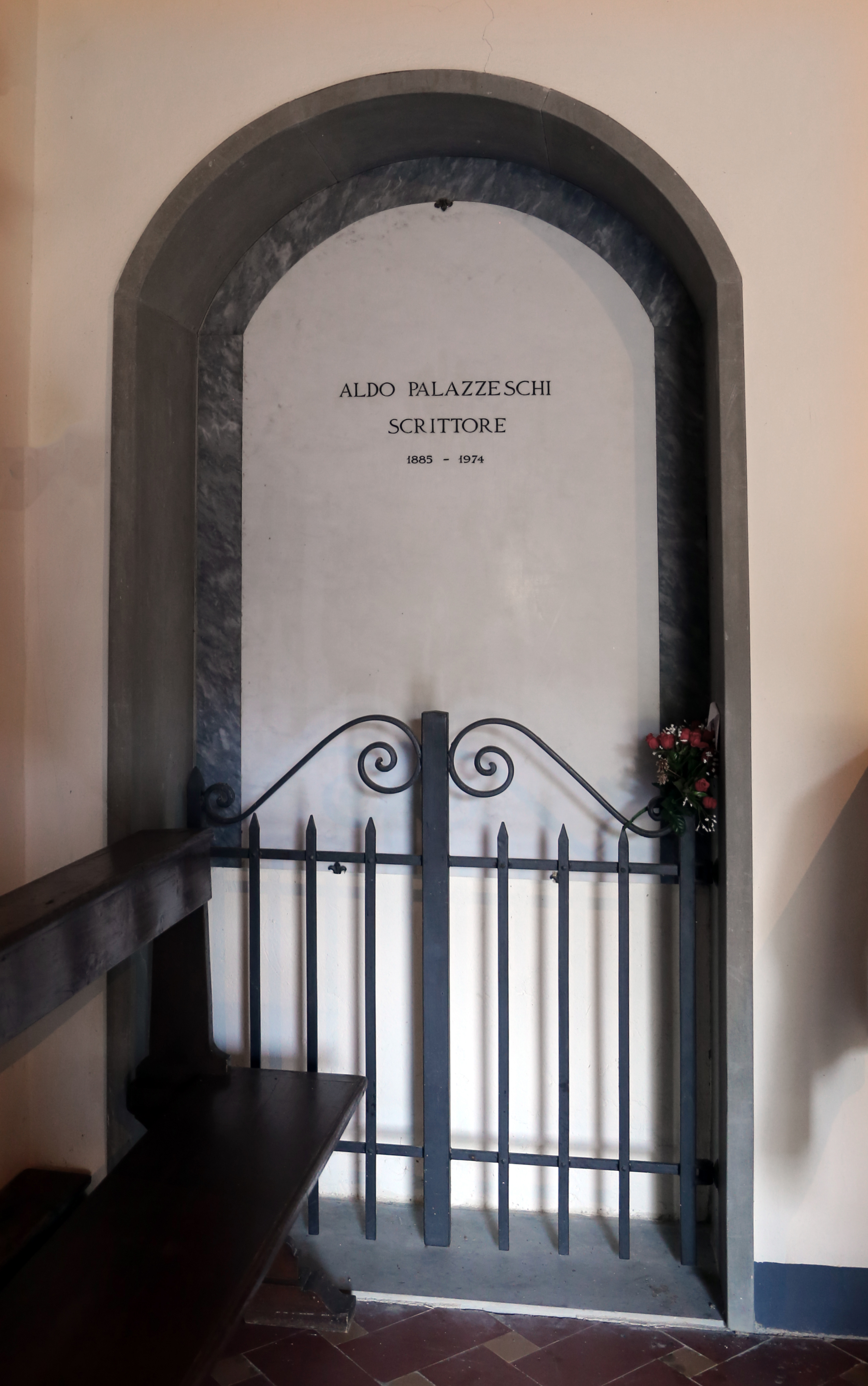 Settignano cemetery